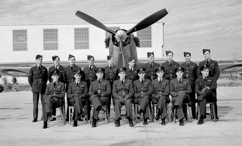 Personnel with a Hawker Hurricane XII aircraft of No.130(F) Squadron, R.C.A.F. Station Bagotville, Québec, Canada, 21 October 1942.